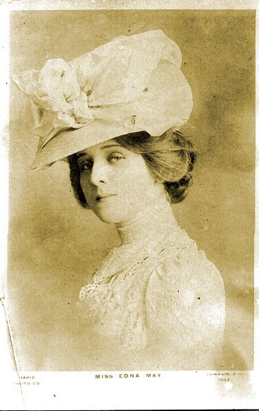 Edna May